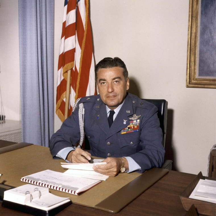 01 February 1962 Brigadier General Godfrey T. McHugh, USAF, Air Force Aide to the President. Photograph by Robert Knudsen, White House.